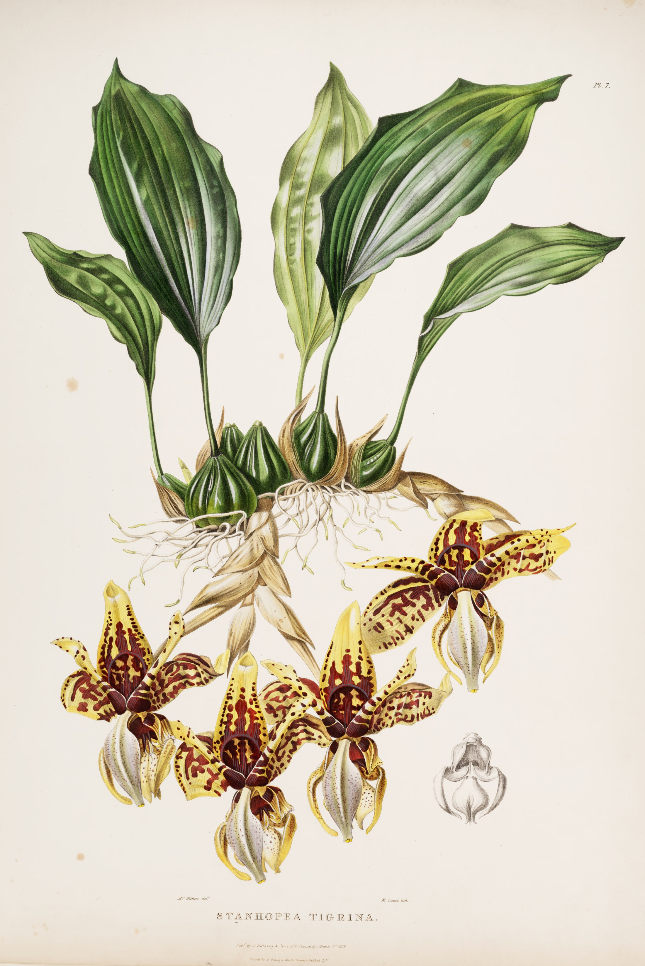 Illustration of Stanhopea tigrina